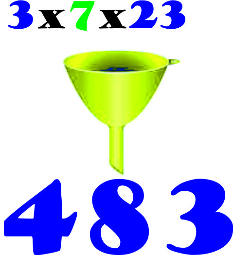 483, a sfenic number